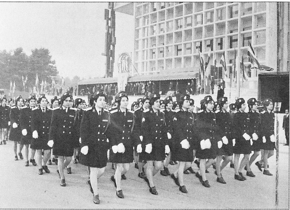 sepah danesh, army of female student teachers, white revolution, 1963